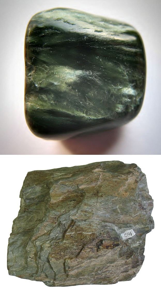 Chlorite - rock-forming mineral of GreenSchist